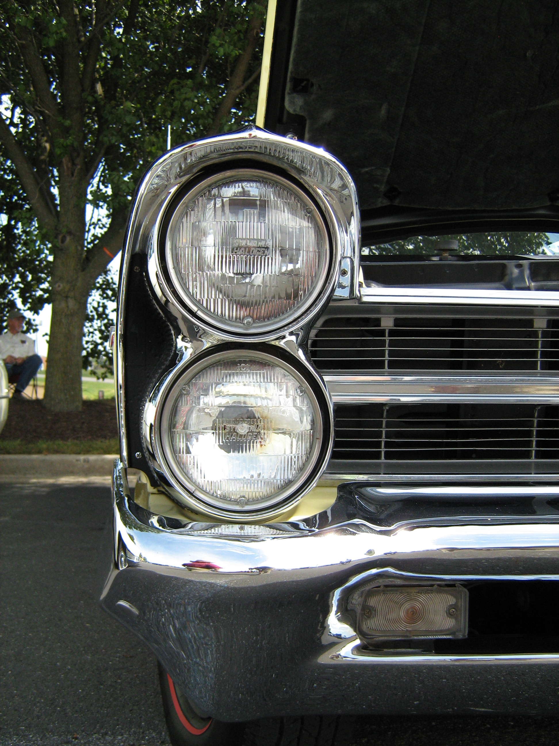 Detail of the stated headlamps on a 1965 Pontiac 2+2 coupe with a 421 CID V8.